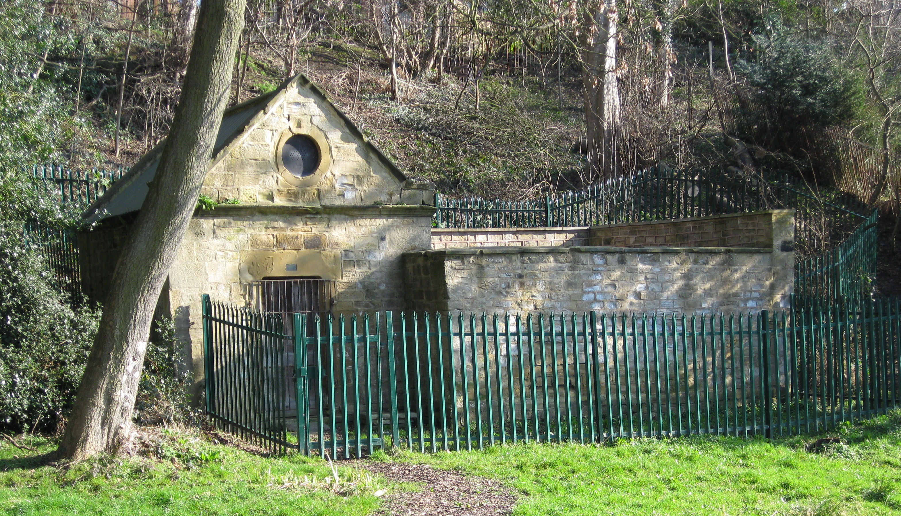 Gipton Spa Bathhouse in Gledhow Woods, Leeds, UK. Sign over door reads: "This Bathhouse was built in 1671. Ice-cold water from a near-by spring was conducted here to a sunken bath. Also inside was a small fireplace to sweat the patients after bathing."